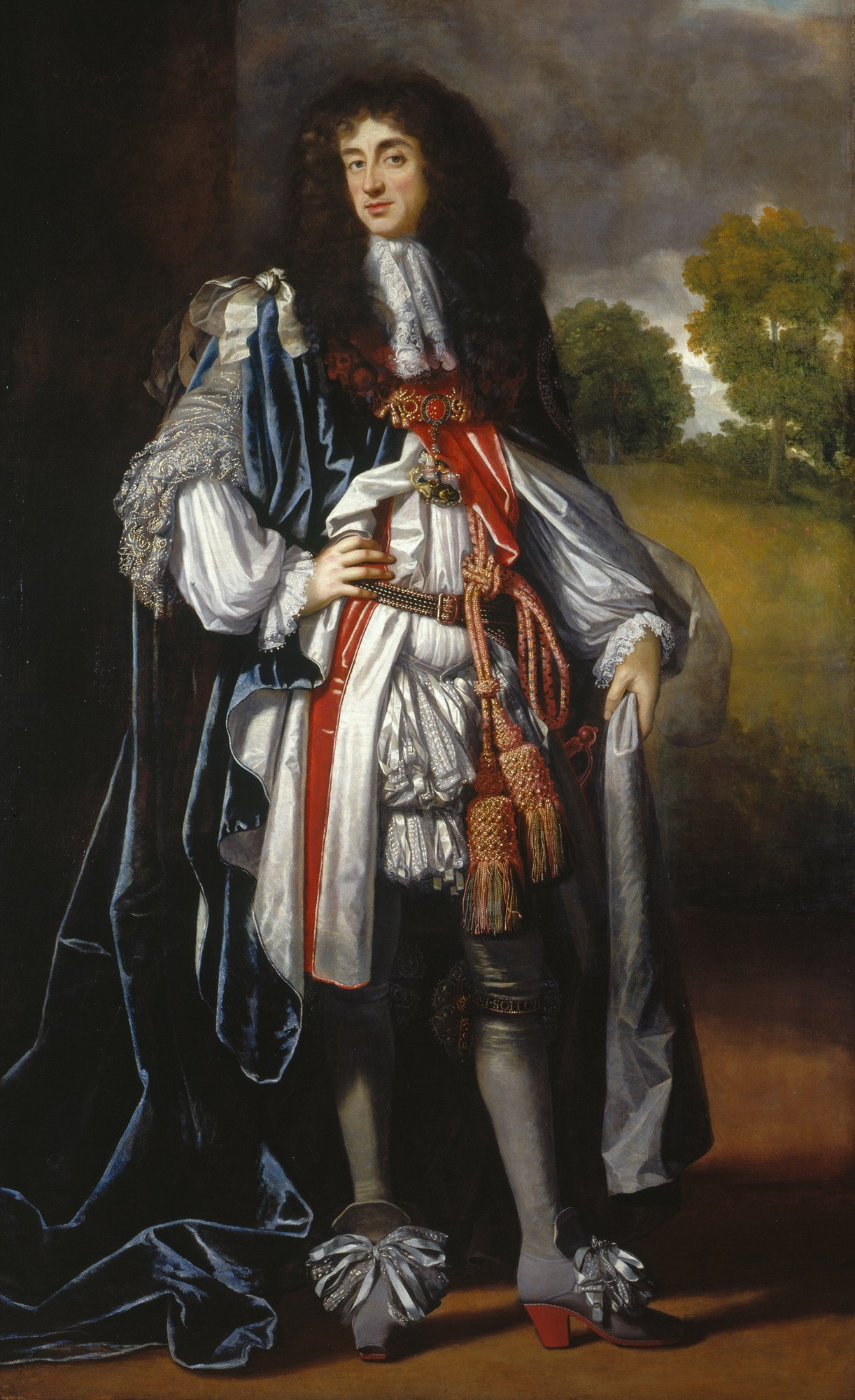 Charles II of England (1630-1685)label QS:Len,"Charles II of England (1630-1685)" label QS:Lnl,"Karel II van Engeland (1630-1685)"